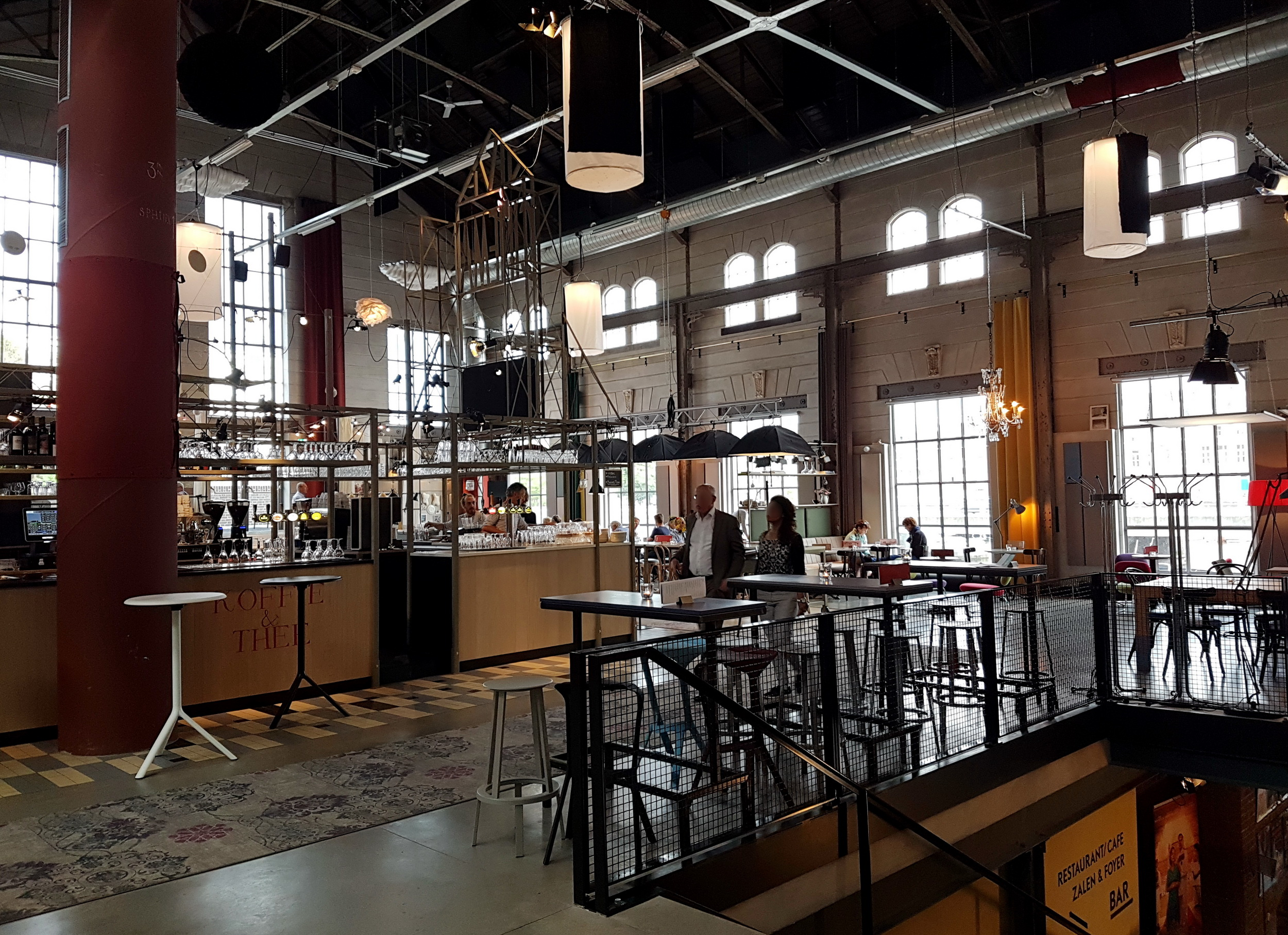 Interior view of Filmhuis Lumière, an arthouse cinema in Maastricht, the Netherlands. In 2016 the cinema moved to the former power station of Sphinx potteries.The main entrance, box office, meeting rooms and offices are in the Hennebique building, which also features a grand staircase leading to an open space designated for open air film screenings. The 6 cinemas have been built into the Ketelhuis (where the steam engines stood). The generator house, the Elektriciteitscentrale, is now a café and restaurant (shown here) with an outdoor café facing the inner harbour Bassin. The area around Bassin is being developed as a cultural and leisure quarter with two cinemas, a pop music venue, and various cultural organizations, mainly based in disused factories.